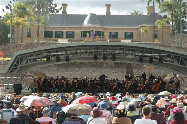 Jimbour is the main homestead on one of the earliest stations established on the Darling Downs, is important in demonstrating the pattern of early European exploration and pastoral settlement in Queensland, Australia.